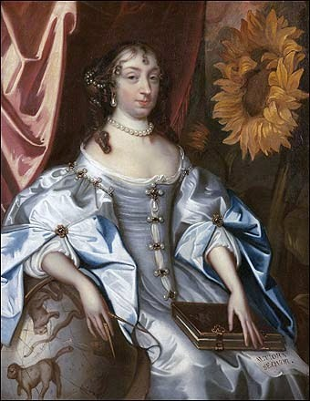 Portrait of Elizabeth Claypole, c.1680 Jacob Huysmans Chequers, England, UK